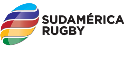 Sudamerica Rugby's new logo